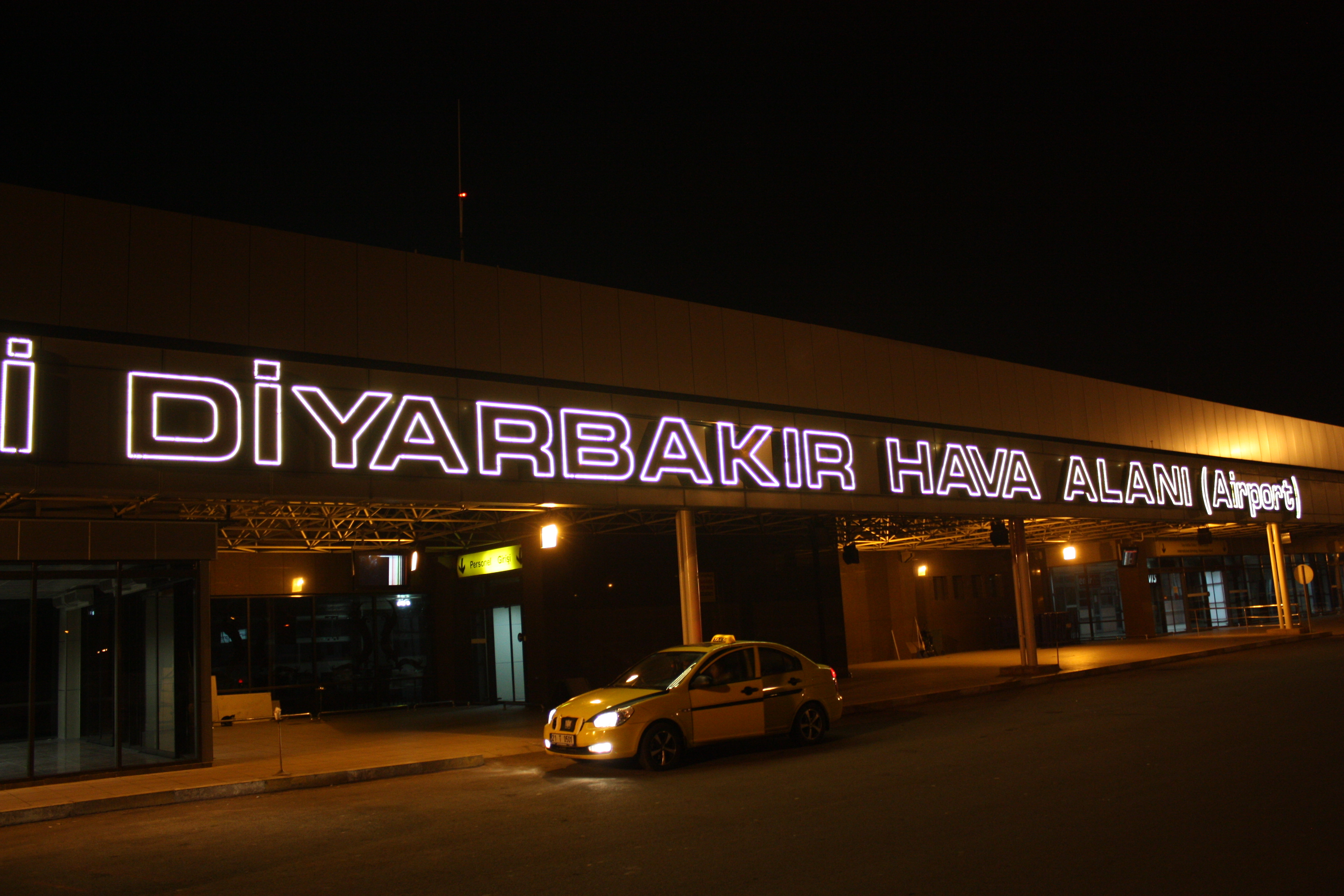 Diyarbakır Airport